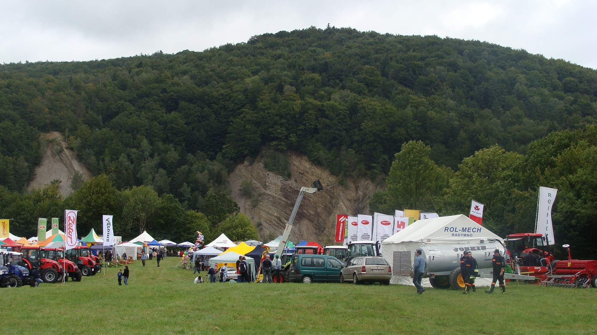 Agricultural Fair near Zawadka Rymanowska, Poland at River Wisłok, Wall of Olza back. 2008.